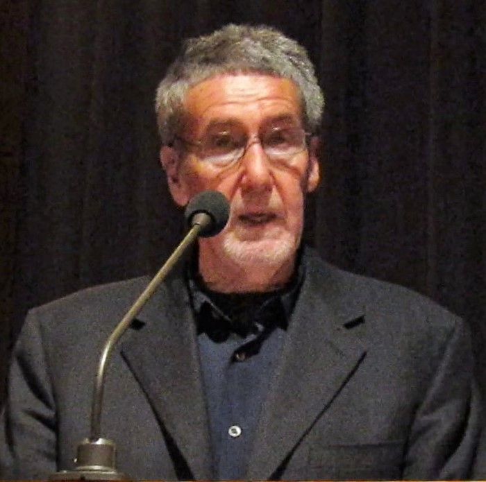 Darrell Spencer reading at a BYU English Reading Series.